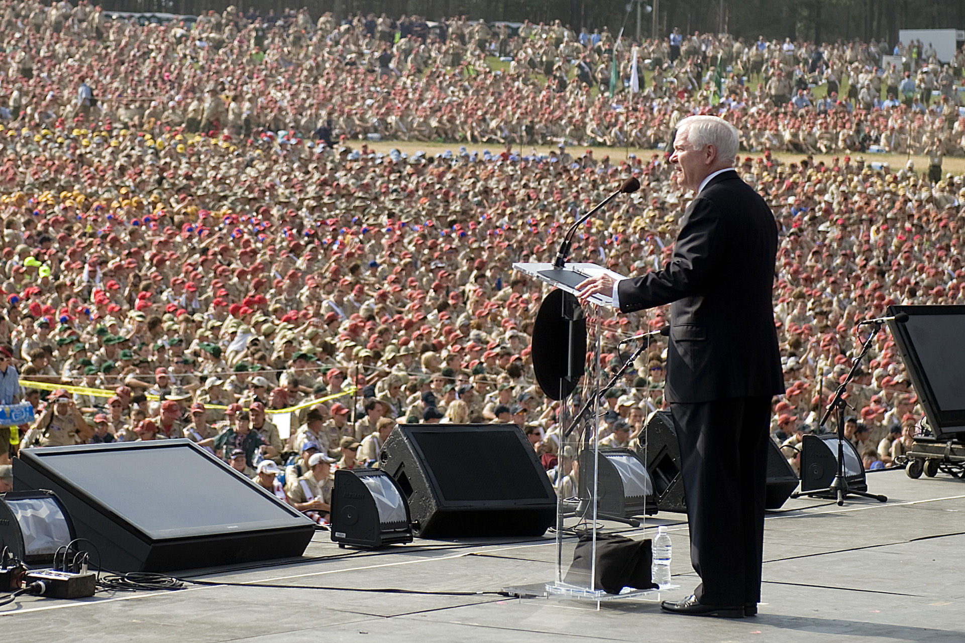 Secretary of Defense Robert M. Gates addresses an audience of more than 45,000 during the Boy Scouts of America 2010 National Scout Jamboree at Fort AP Hill, Va., on July 28, 2010. The massive group of boy scouts from across America came to the 12,000-acre site for 10 days to celebrate the Boy Scouts' 100th anniversary.